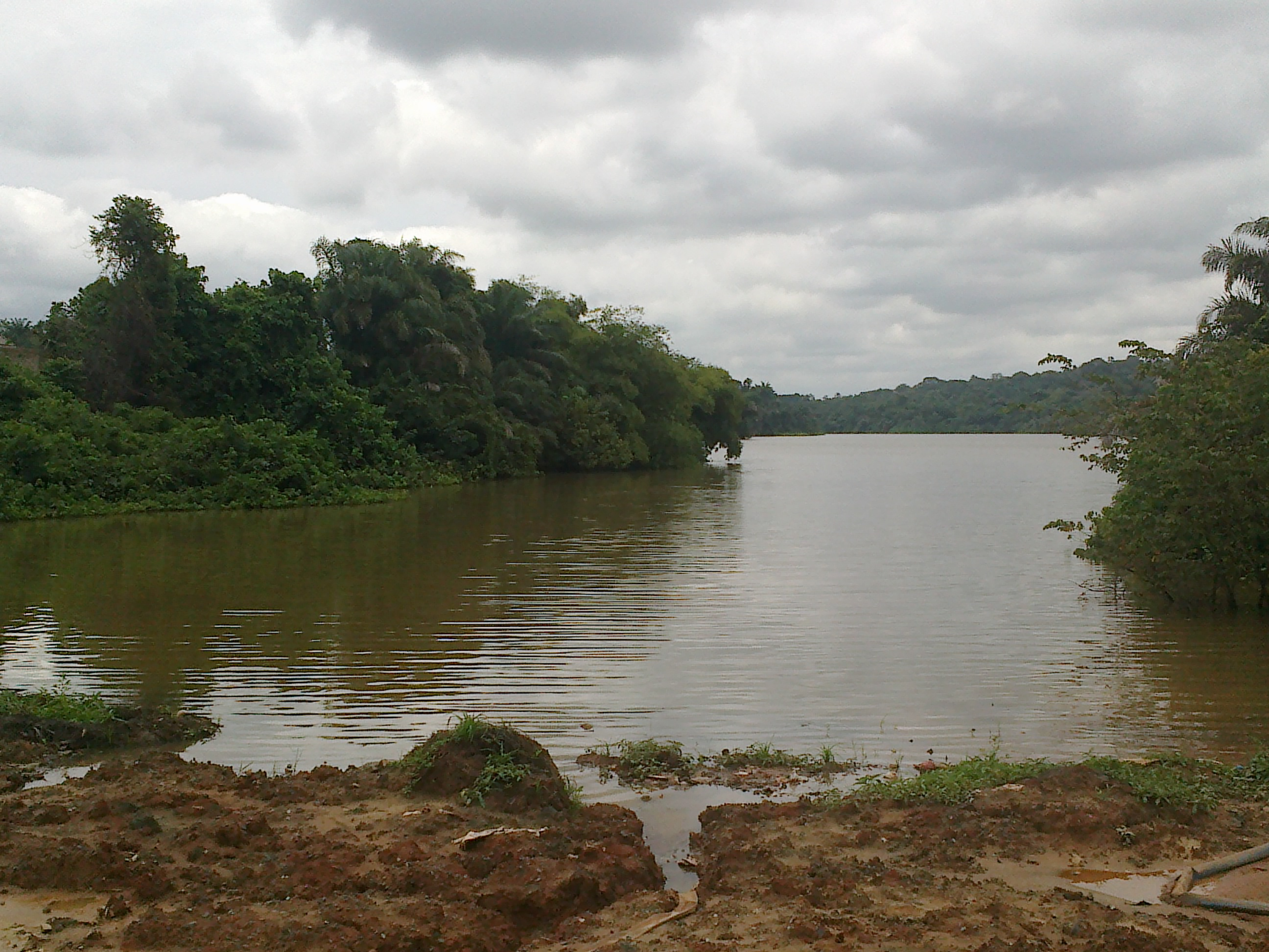 The crocodile laden waters of Agulu lake, Anambra state, Nigeria